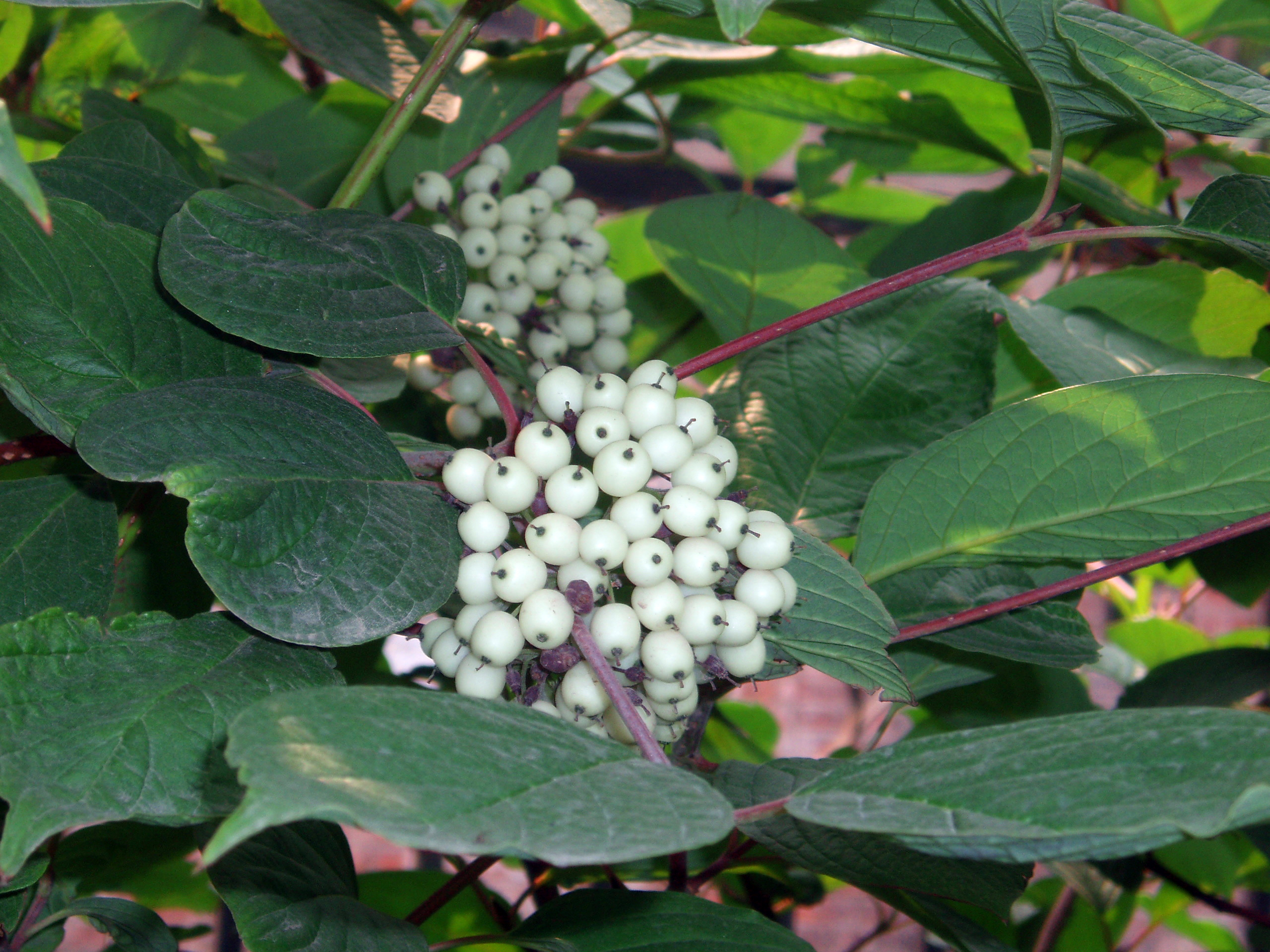 Dogwood Cornus sp. (not C. controversa) berries